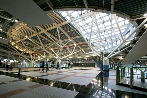 THSR Chiayi Stations